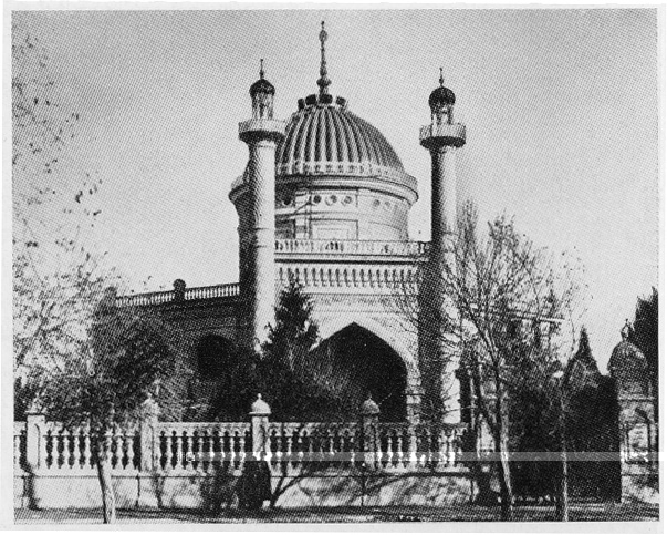 Bahai House of Worship Ashkabad Turkministan; image derives from photo published prior to 1923